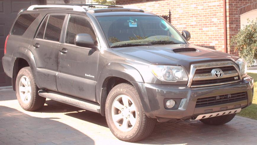 2006-present Toyota 4Runner photographed in Montreal, Quebec, Canada.